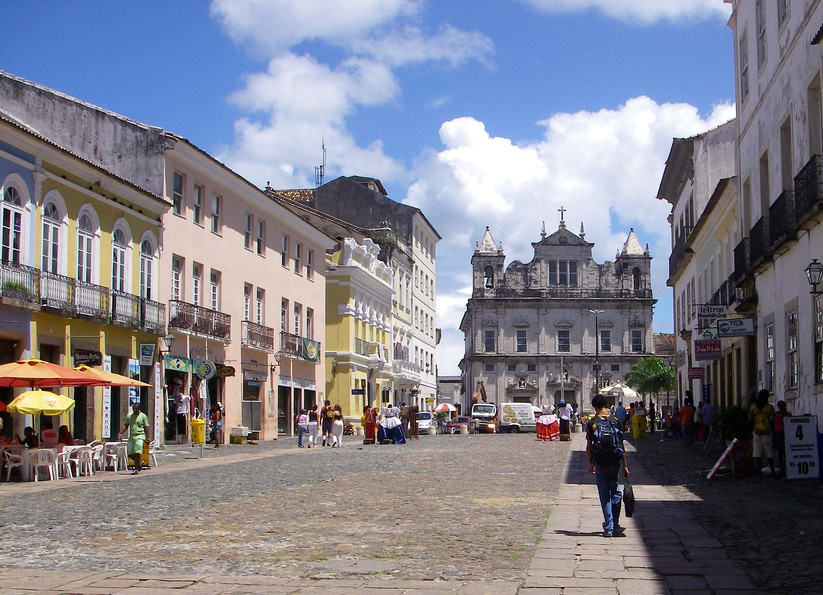 Street in Salvador, Bahia, Brazil